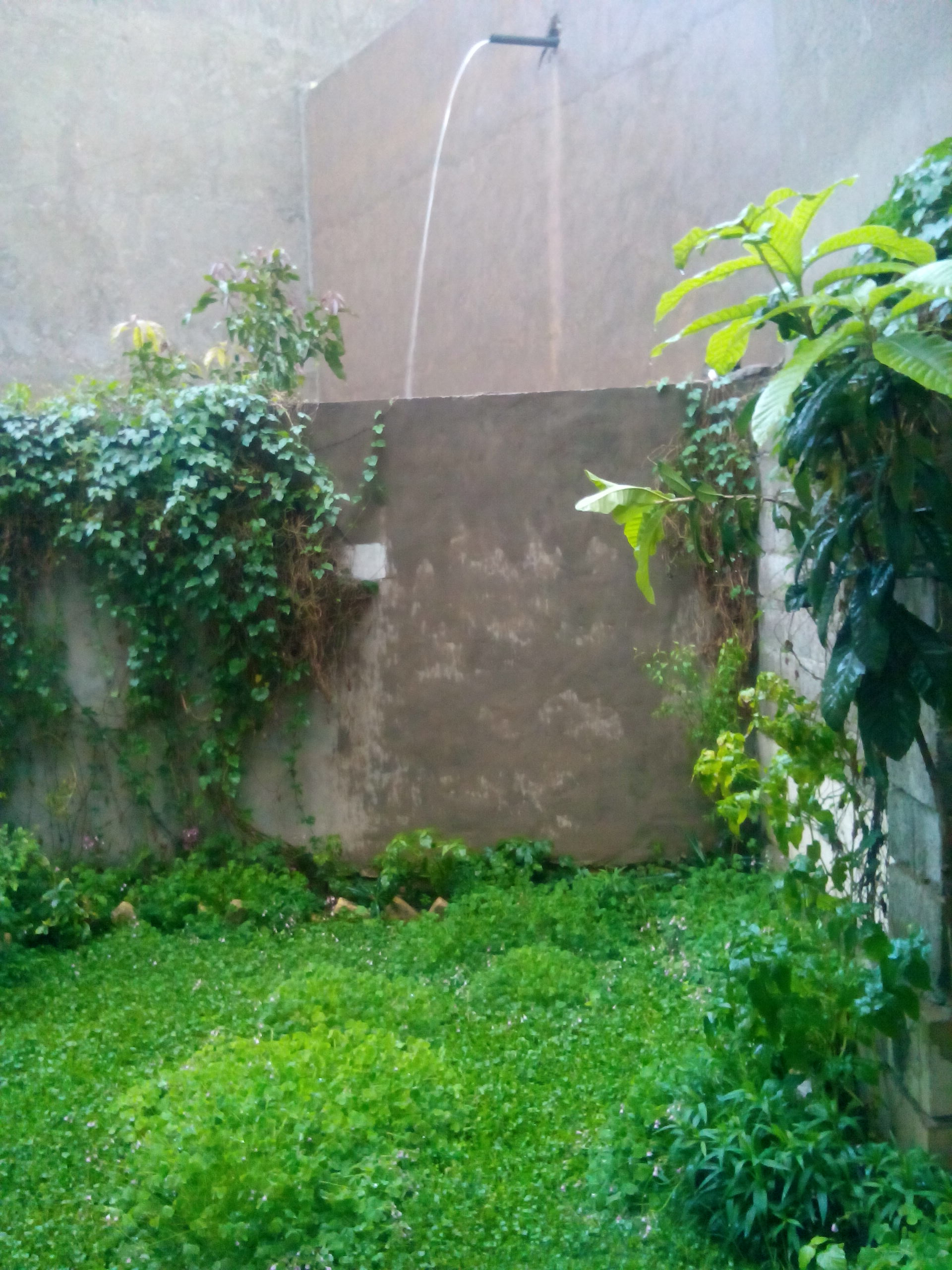 garden in the rain